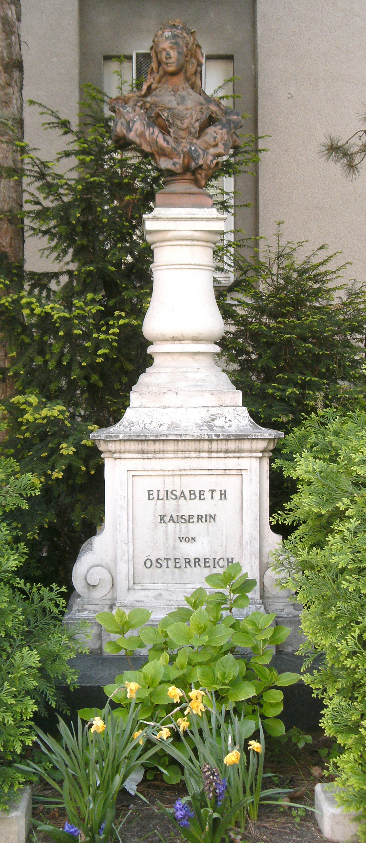 Bust of Empress Elisabeth of Austria in Kaiserin-Elisabeth-Spital (Empress Elisabeth Hospital), Vienna's 15th district